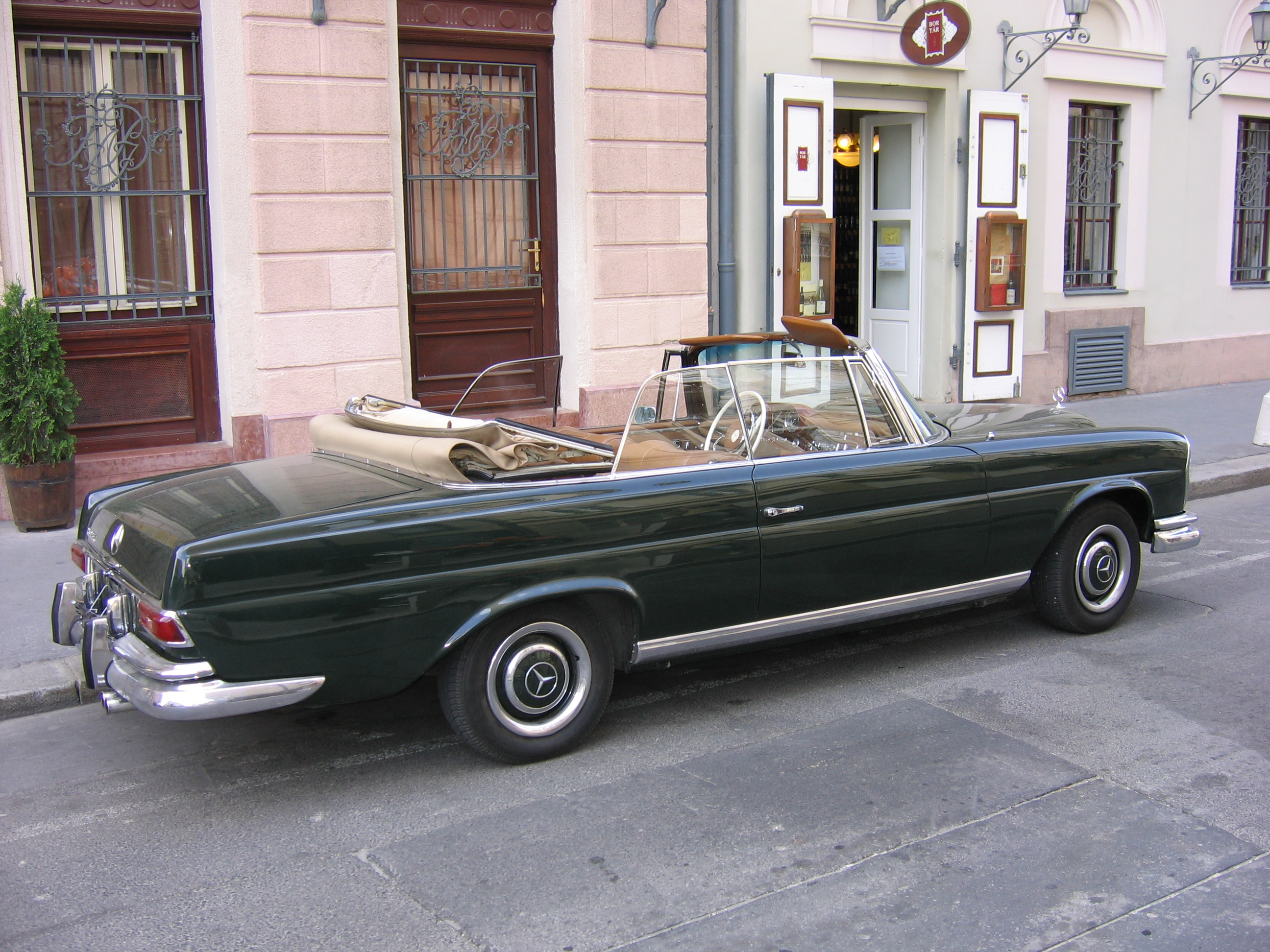 Mercedes in Budapest